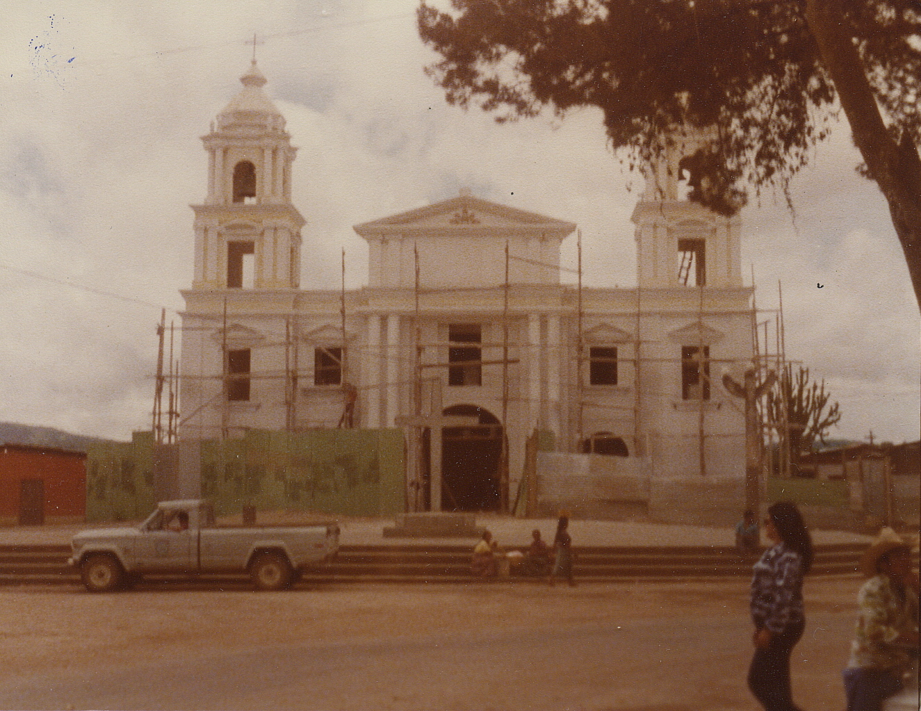 Church on main square, Chimaltenango, Guatemala